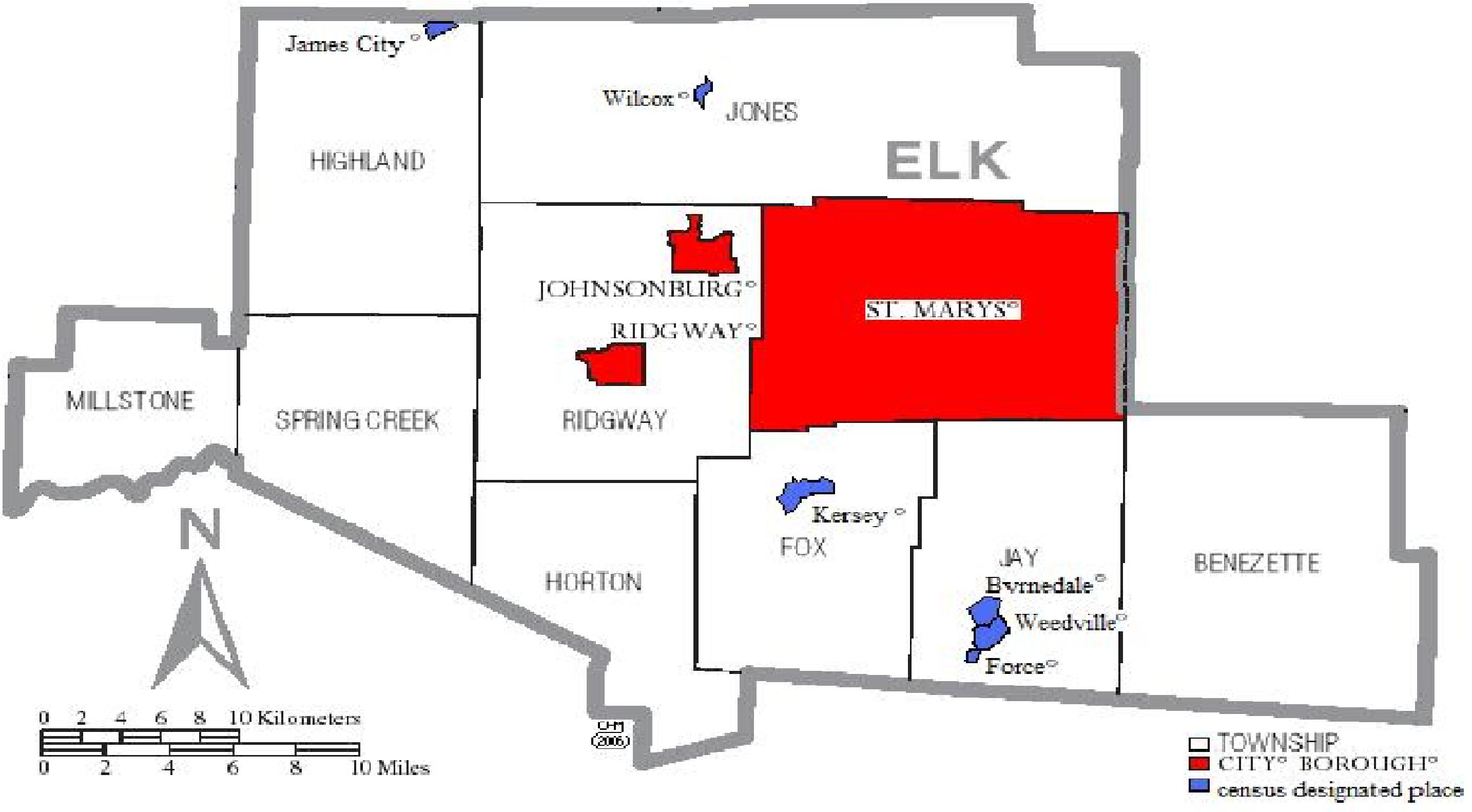 Map of Elk County Pennsylvania with municipalities shaded in red and blue.